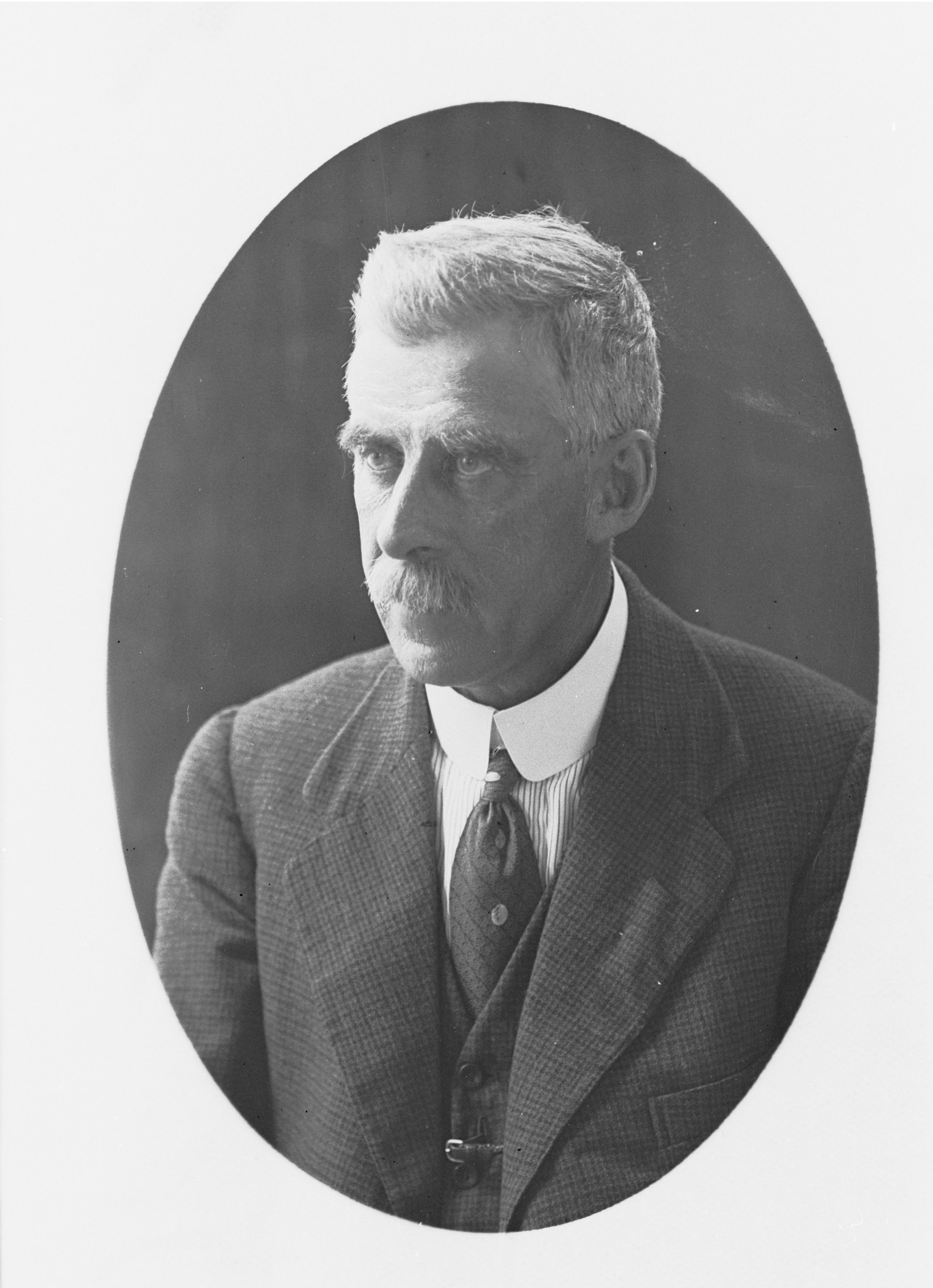 A E Kinnear was a public servant for more than 50 years. Mr Kinnear, who entered the Crown Lands Department as junior clerk on 11 December 1882, made rapid progress in various departments. He was appointed secretary of the Public Service Classification Board in 1901 and acted in that capacity until the completion of the work of the board. He was appointed accountant in the Surveyor-General's Department in 1902. In 1917, Mr Kinnear became secretary to the first Public Service Commissioner, and a few months later also became secretary of the Public Service Reclassification Board. He has acted as Deputy Public Service Commissioner on many occasions.